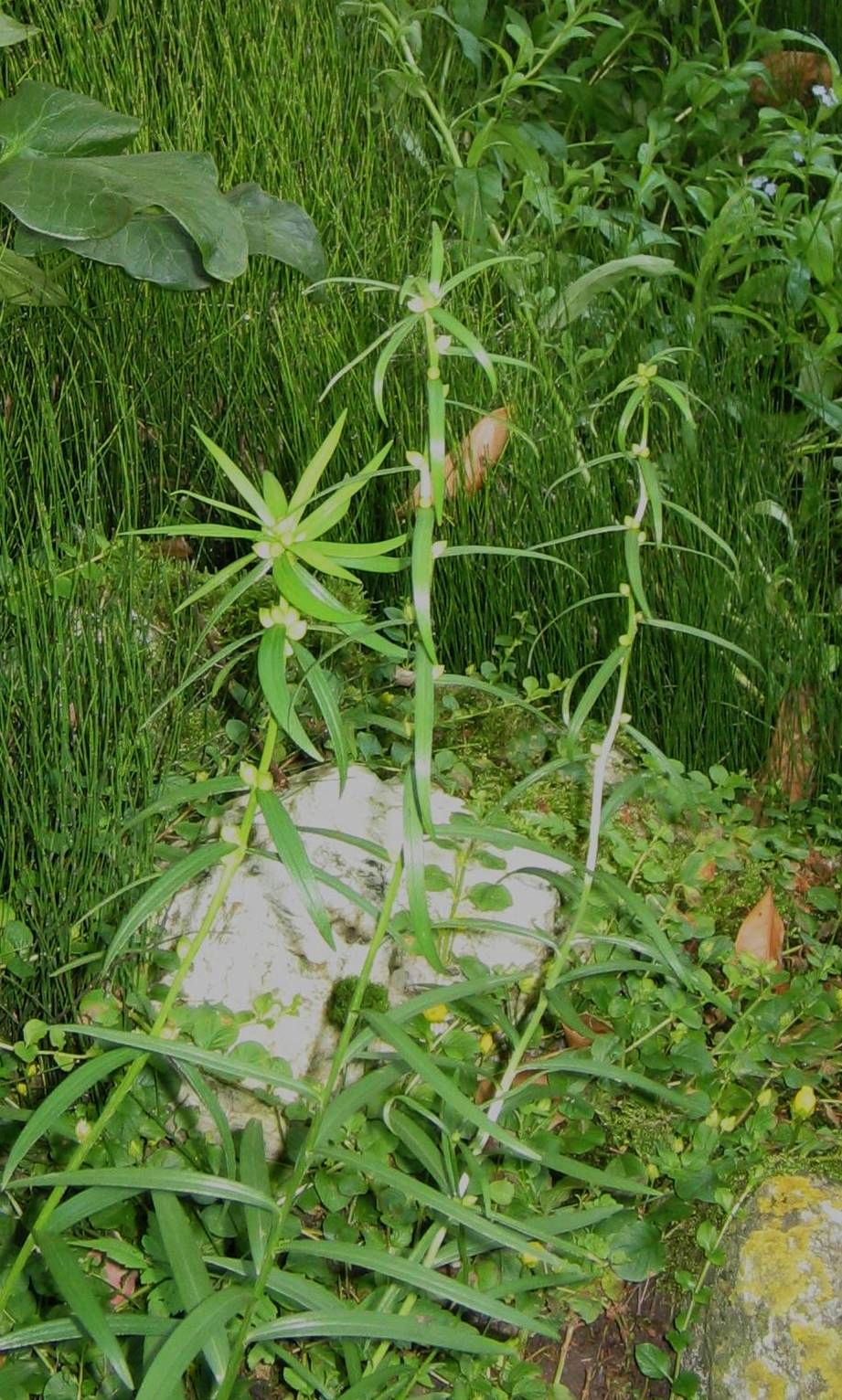 Young Lilium bulbiferum with bulblets